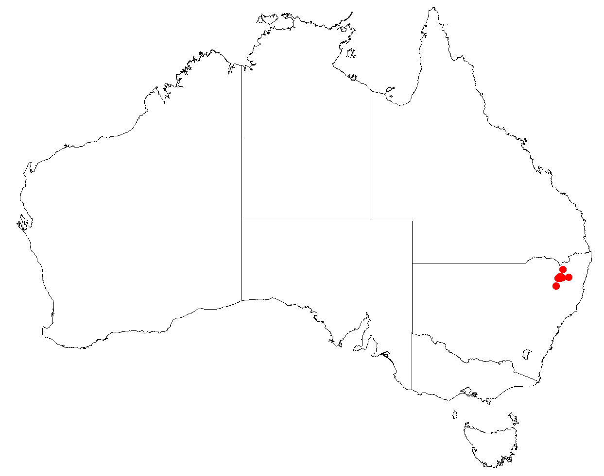 Allocasuarina brachystachya occurrence data from Australasian Virtual Herbarium download 4 July 2018